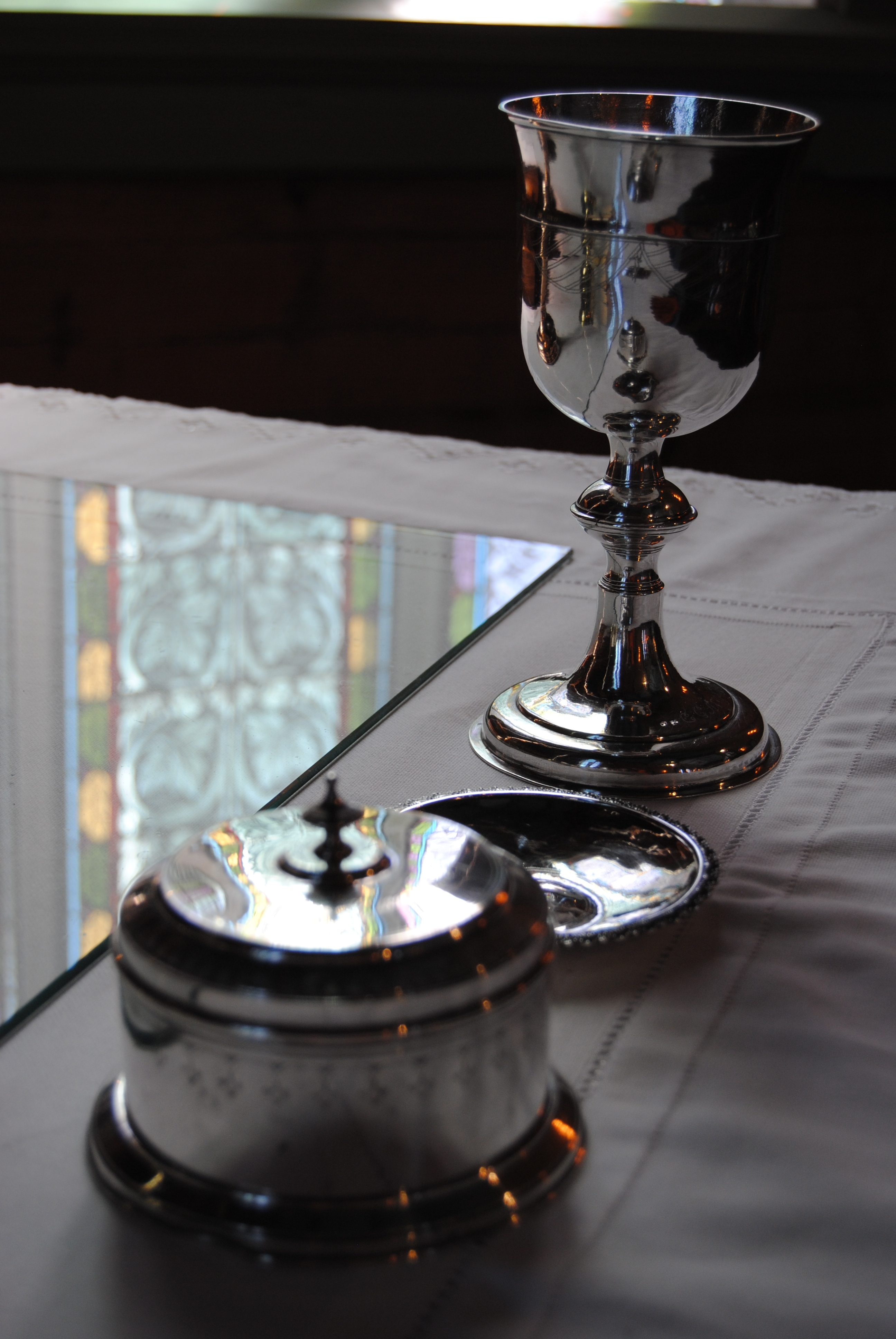 The silverware used for eucharist in Manger church, Norway